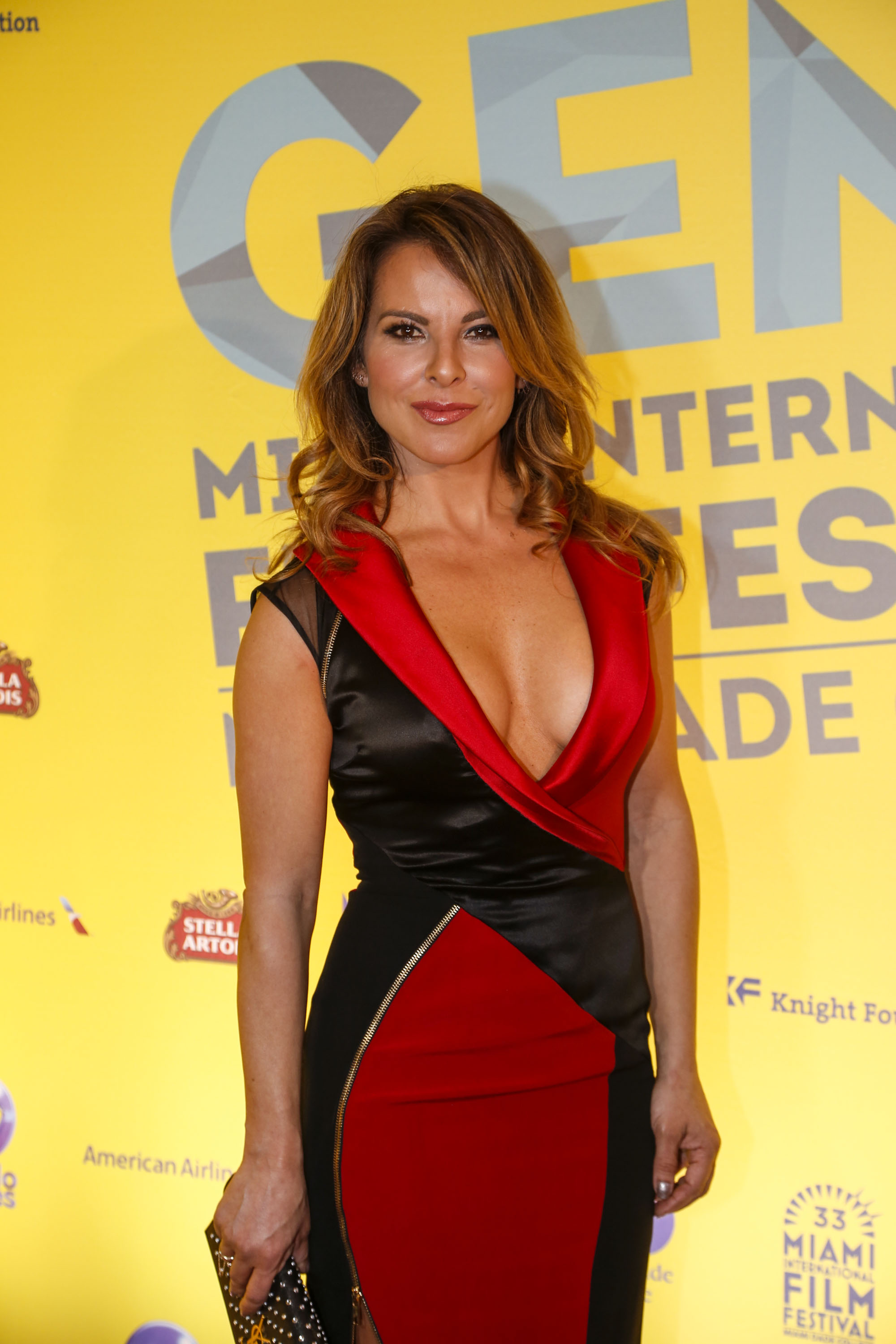 Kate del Castillo. 2015 Miami Film Festival. GEMS opening night and red carpet, Cubaocho and Tower Theater, October 22, 2015